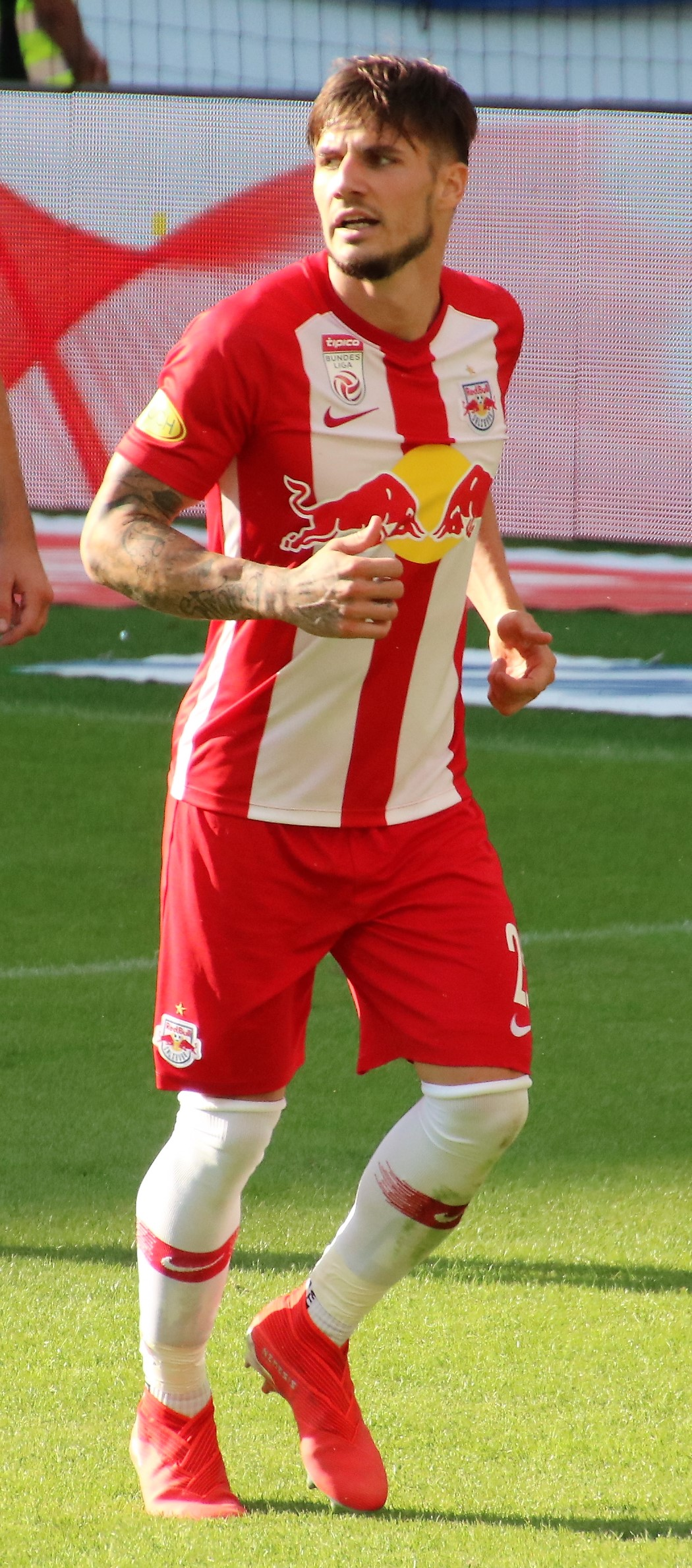 league match 2nd round Austrian Bundesliga